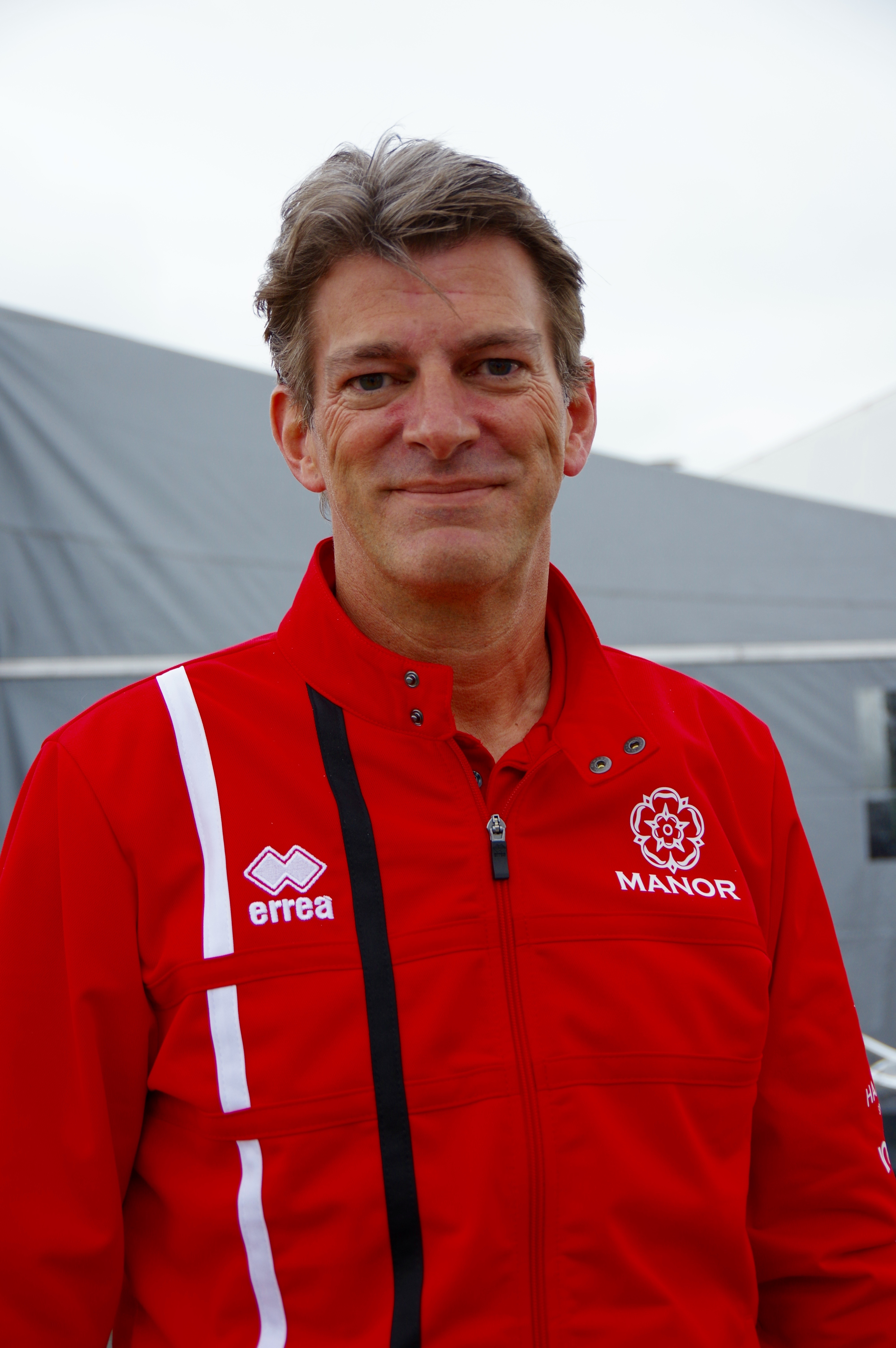 Graeme Lowdon, Team Principal of Manor Racing